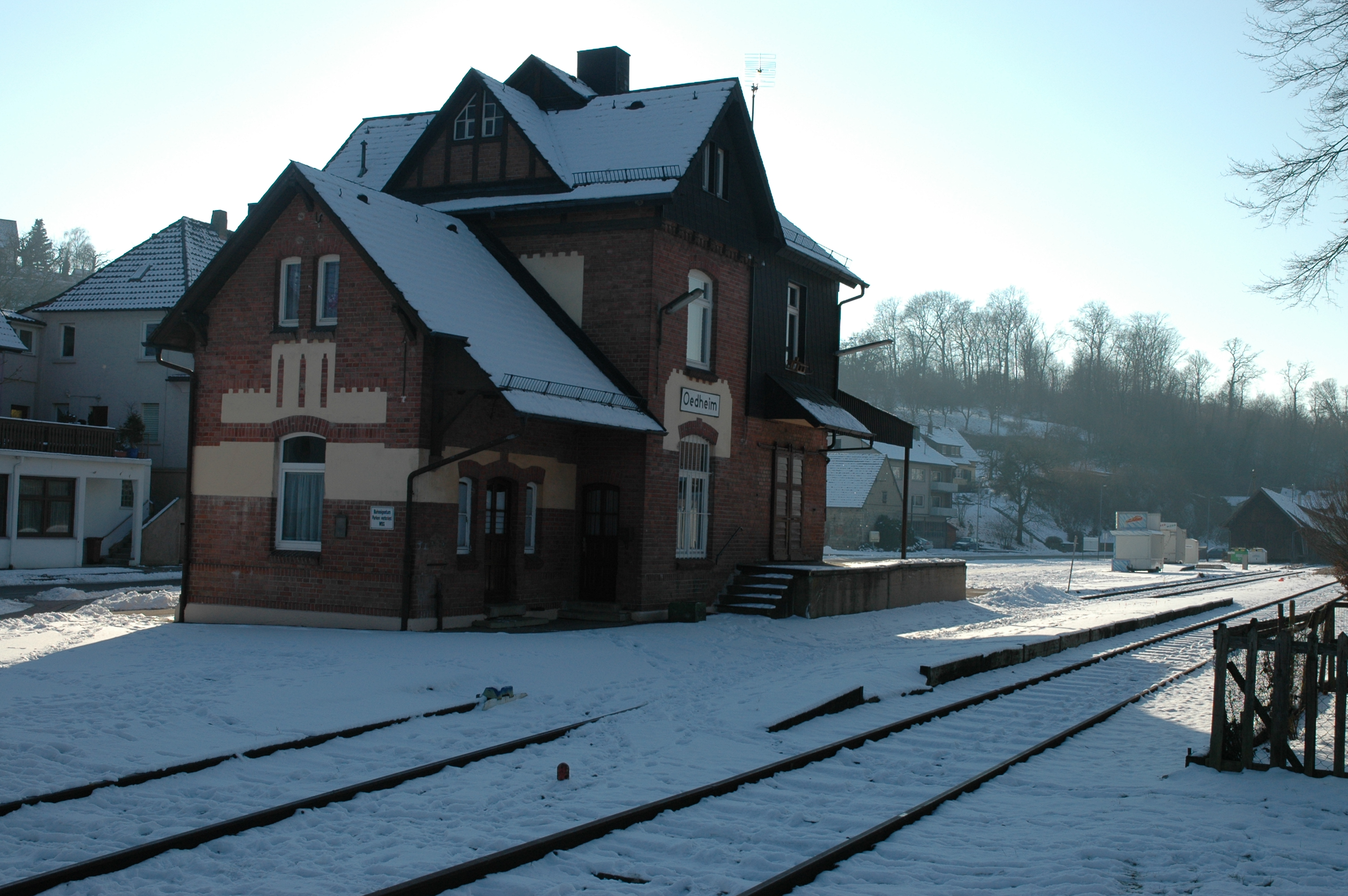 abandoned train station of Oedheim. The tracks have been removed three weeks later.